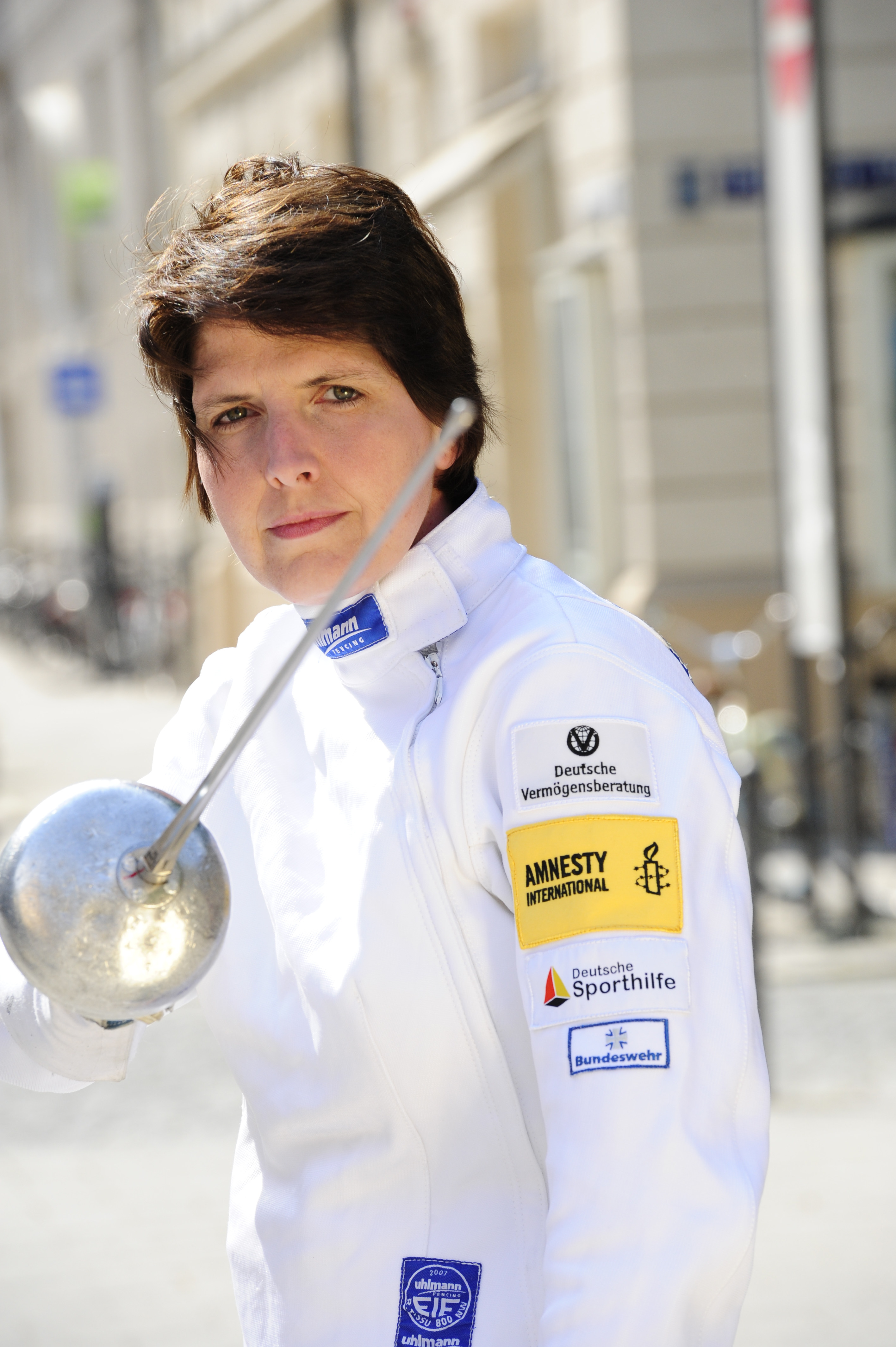 Imke Duplitzer German Fencer